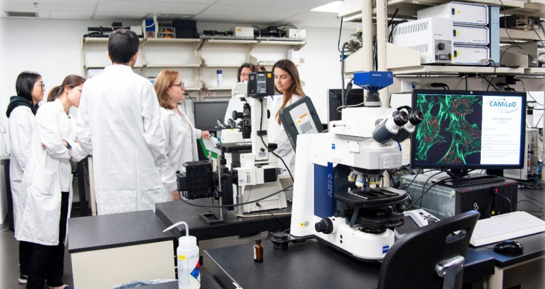 Researchers active in their research endeavour by utilizing advanced microscopy and expertise, provided by the facility.